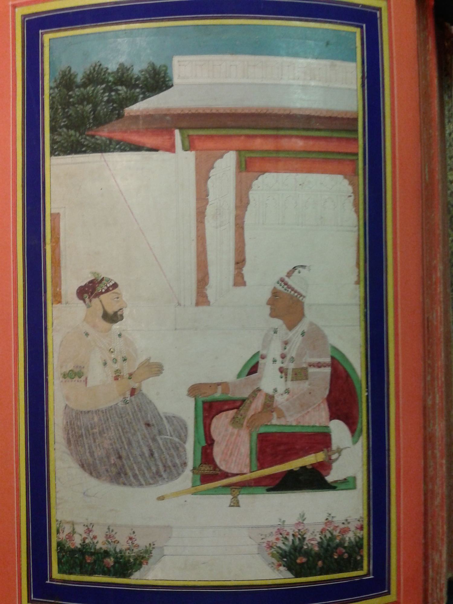 Nizam II and Arastu Jah ( on left founder of Paigah family in Hyderabad)